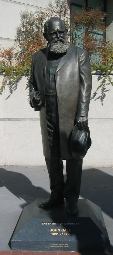 John Gale, Father of Canberra Memorial, 2001, Queanbeyan Courthouse, Monaro & Lowe Streets/ Farrer Place, Queanbeyan. NSW. Sculptor: Peter Corlett. Bronze Cast: Meridian Foundry. John Gale, Father of Canberra Memorial, Queanbeyan Courthouse, corner of Monaro/ Lowe Streets, Farrer Place, Queanbeyan. Sculptor: Peter Corlett. Bronze Cast: Meridian Foundry. Unveiled: 12.03.2001 by HAPI organization Inc.